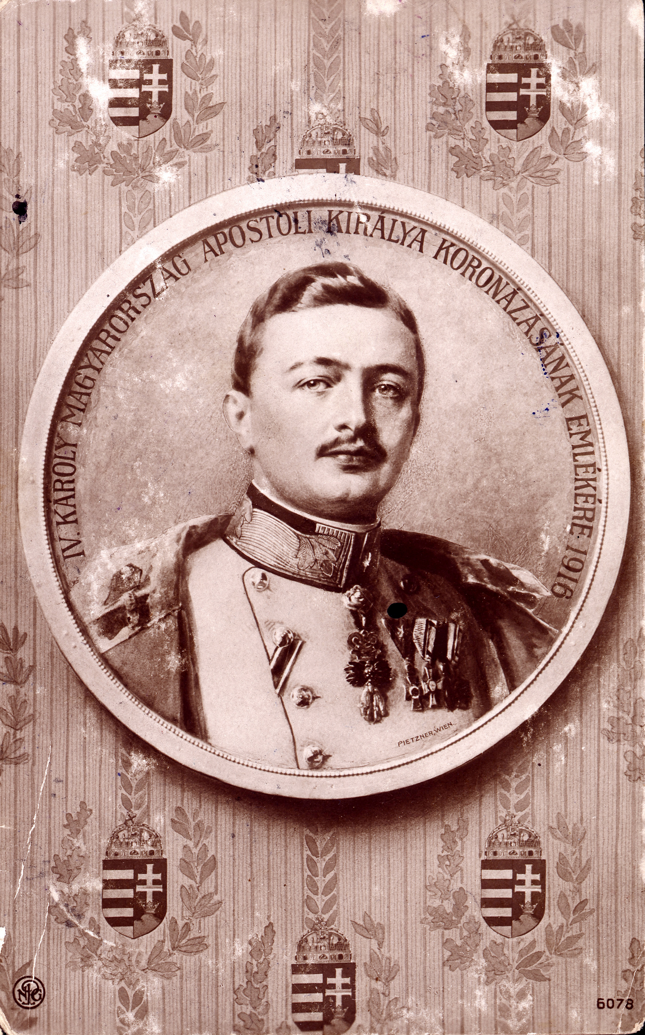 Karl I of Austria on postcard in 1916.